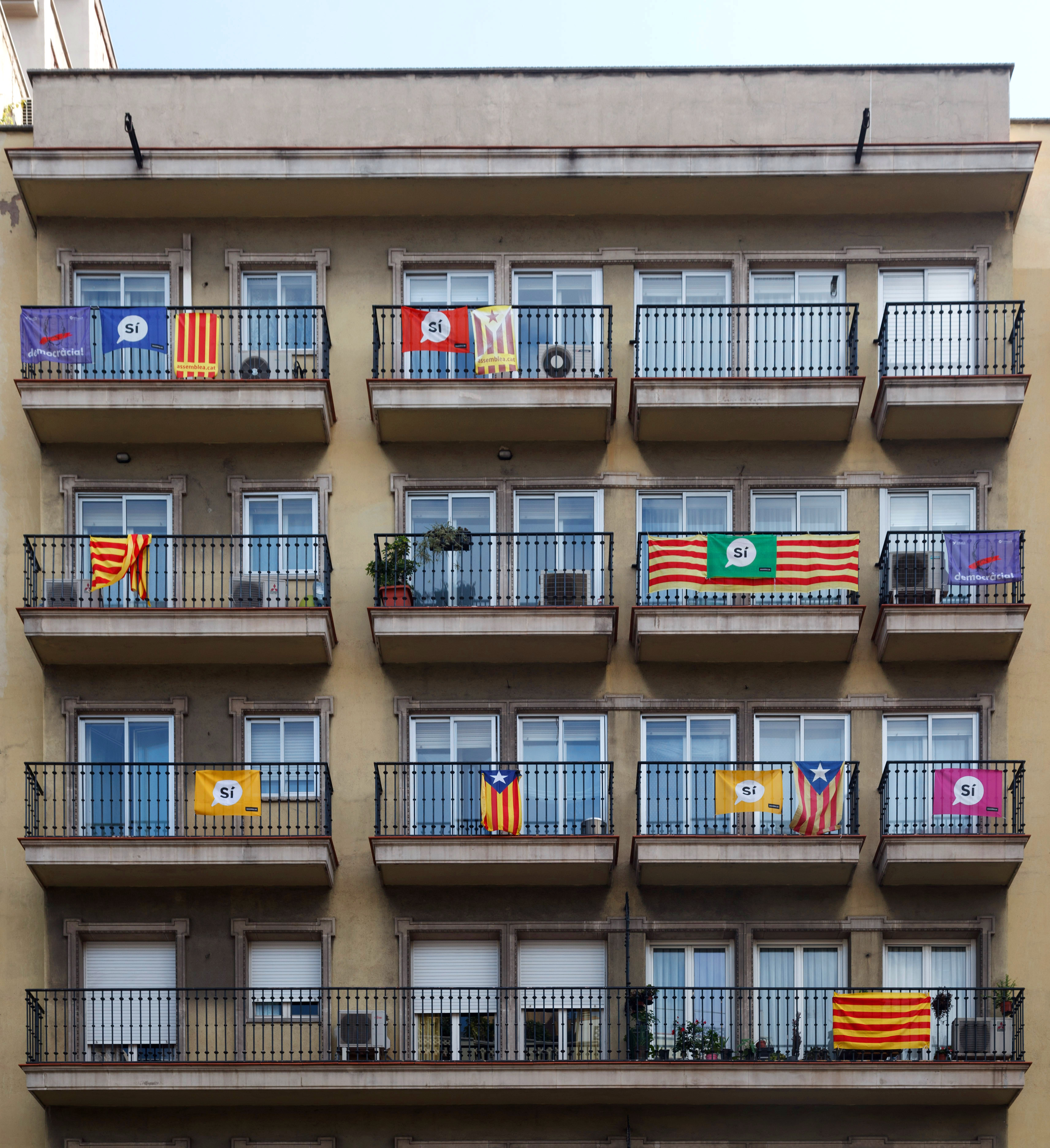 Different versions of the Catalan flag and other pro-independentist symbols in Barcelona during the campaign for the Catalan indepence referendum 2017. Wikipedia: Catalan independence referendum, 2017 See also category: Catalan independence referendum, 2017.